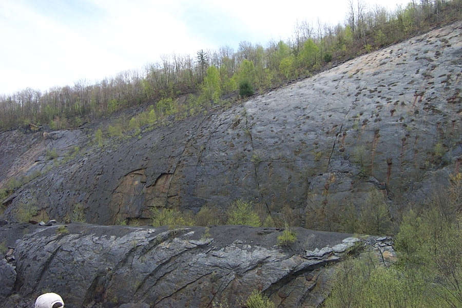 The Whale Back